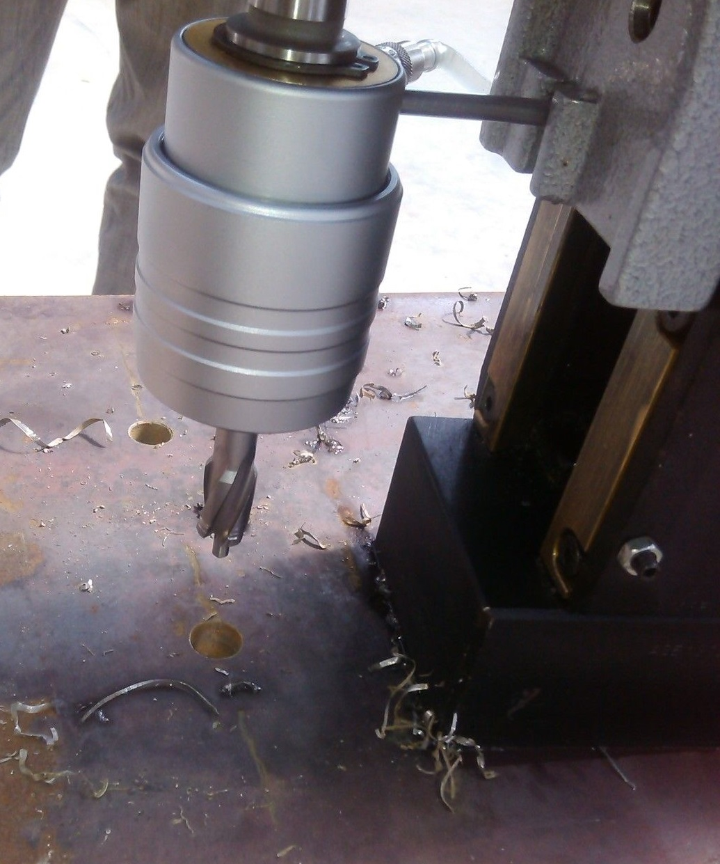 A 14 mm diameter TCT annular cutter from BDS Maschinen Germany in action.